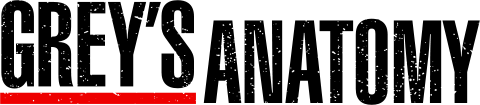 Grey's Anatomy Logo